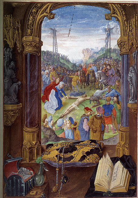 Méditation des mystères du rosaire